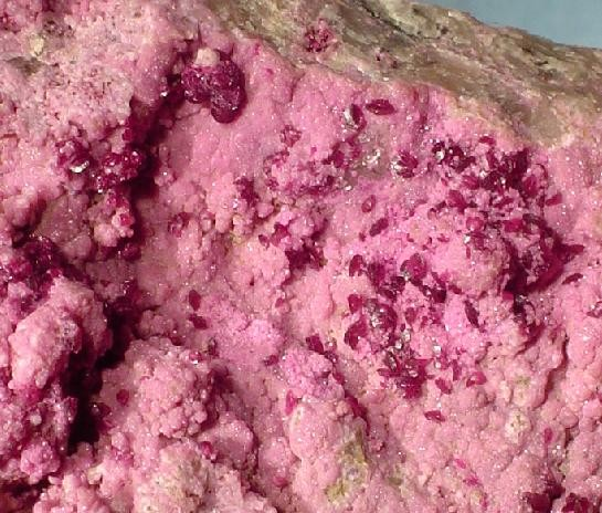 Spherocobaltite, Dolomite (Var.: Cobaltoan Dolomite) Locality: Kakanda deposit, Kambove, Central area, Katanga Copper Crescent, Katanga (Shaba), Democratic Republic of Congo (Zaïre) (Locality at ) Size: 6.1 x 4.3 x 2.1 cm. A really showy and bright specimen of gemmy and lustrous, magenta spherocobaltite crystals to 5 mm RICHLY scattered in a vug lined with tiny microcrystals of pink, cobaltoan dolomite from a less well-known Zaire locality - the Kakanda Mine at Kambove. Ex. George Elling Collection.